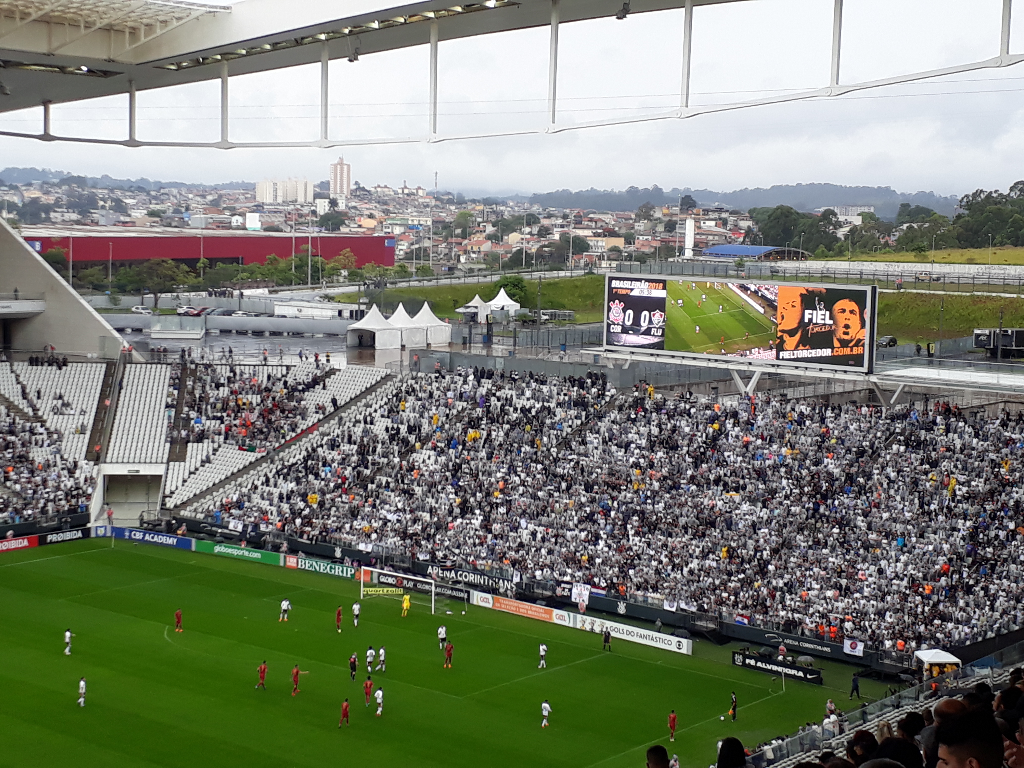 Corinthians vs. Fluminense at Corinthians Arena